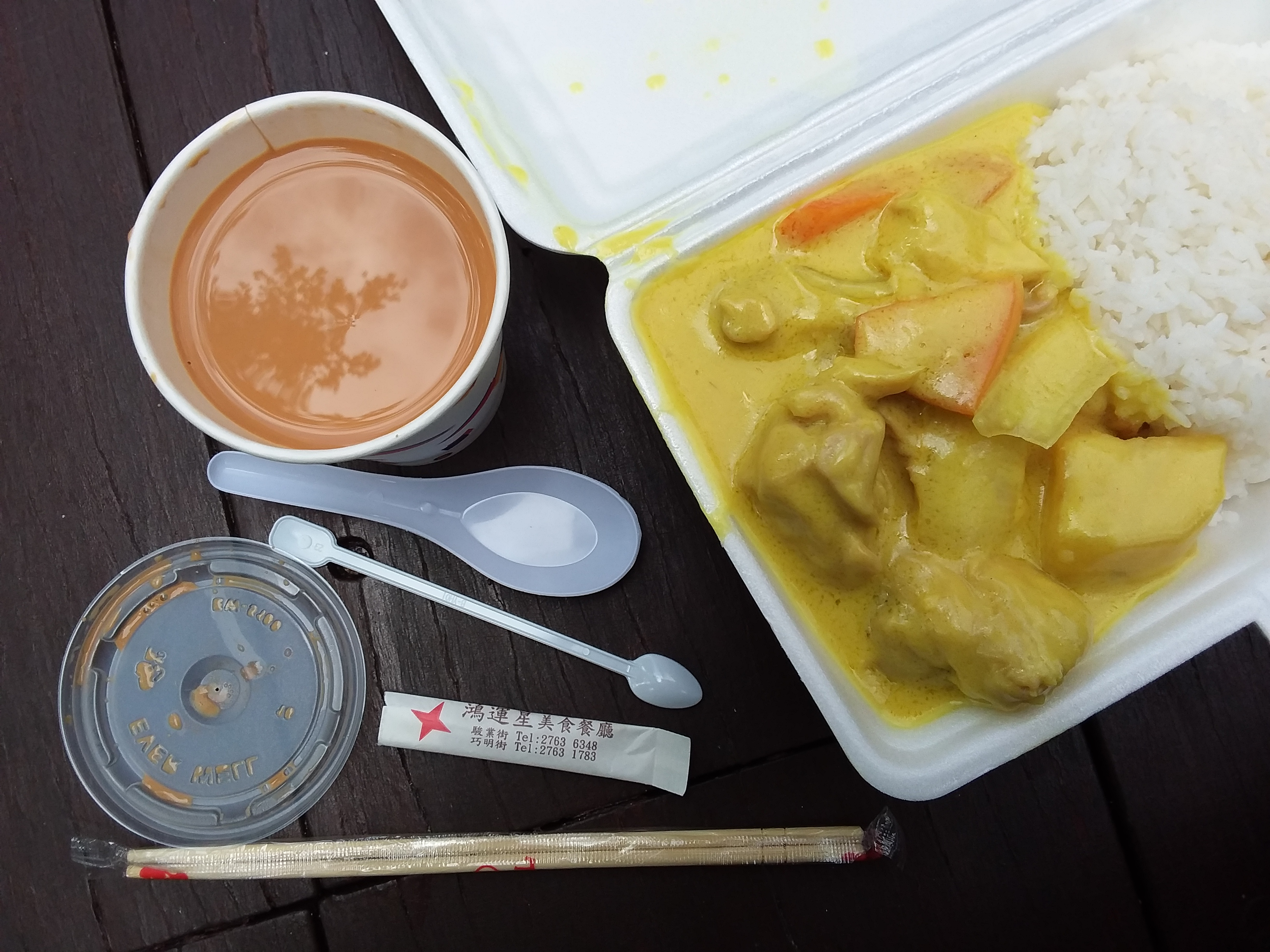 HK Kwun Tong Lunch take-away curry chicken potato rice milktea cup cover plastic spoon paper bag sugar box in November 2018